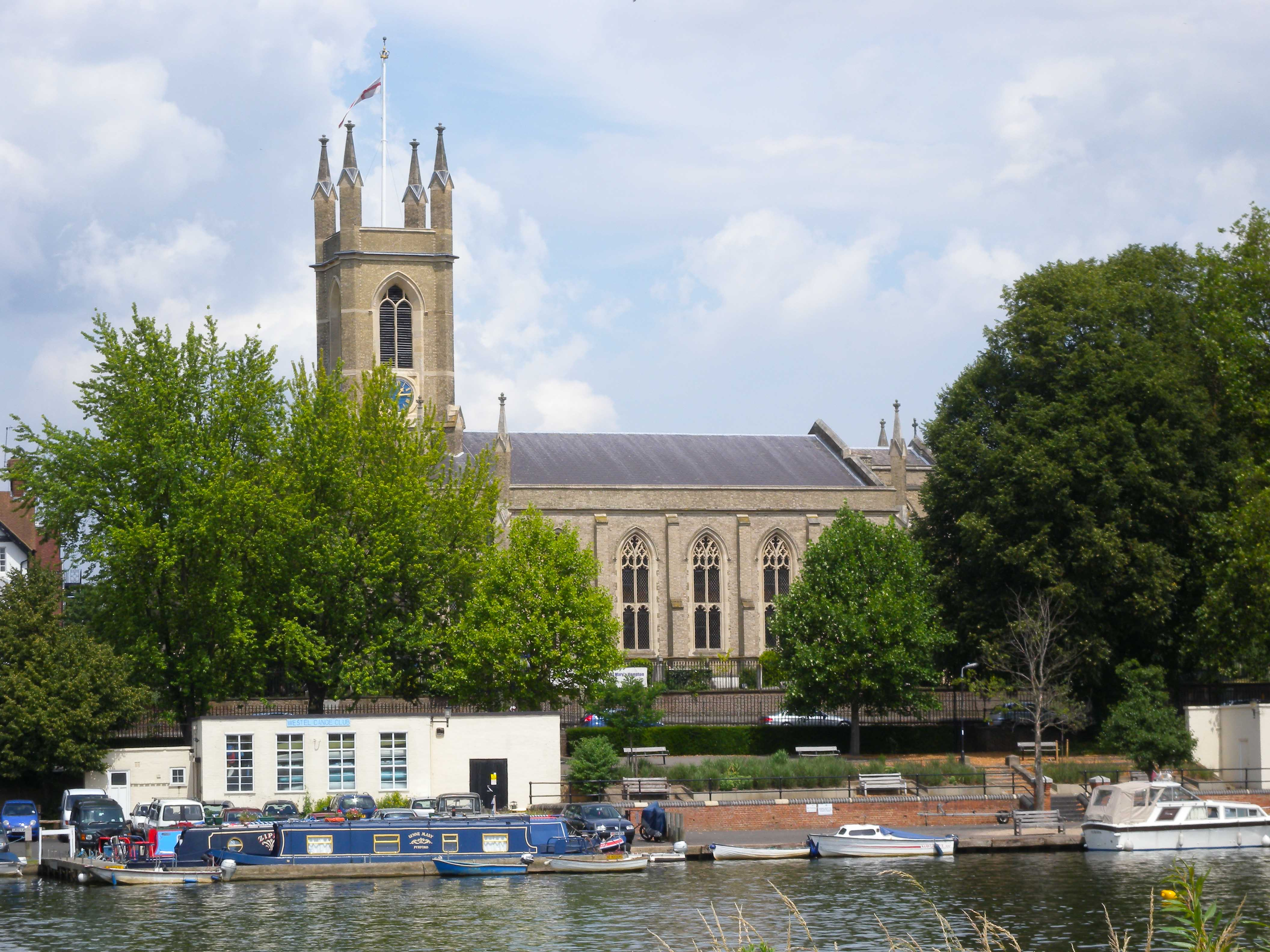 St Mary's Parish Church, Hampton and the Hampton Ferry from the Molesey side of the river Thames